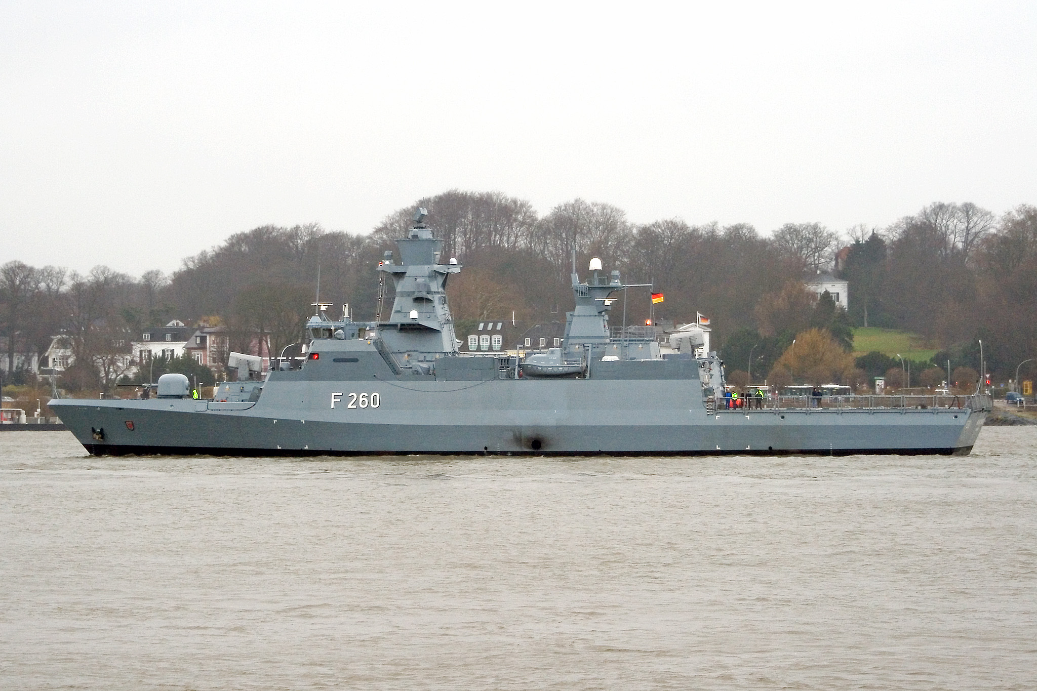 The German navy's corvette Braunschweig ( F 260) sails from Hamburg, Germany on December 11, 2006 for her first voyage. The ”Braunschweig“ is the lead ship of the corvette class K 130.